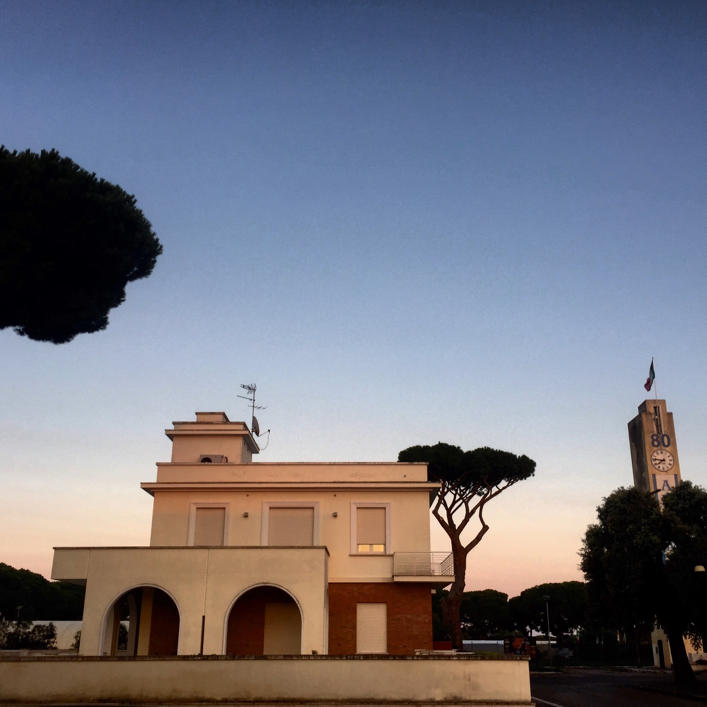 Borgo Montenero